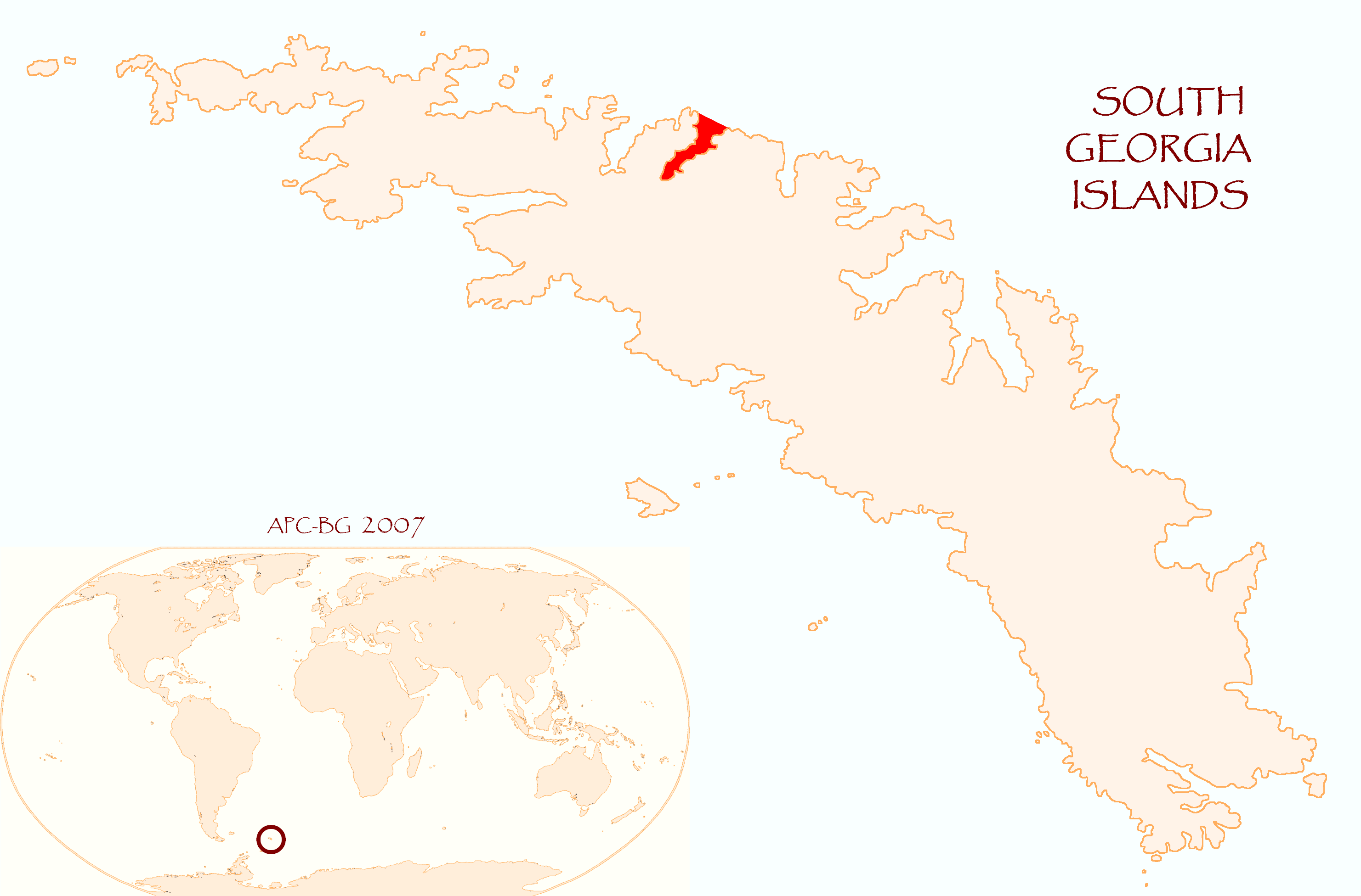 Location map for Antarctic Bay, South Georgia published by the author Apcbg.